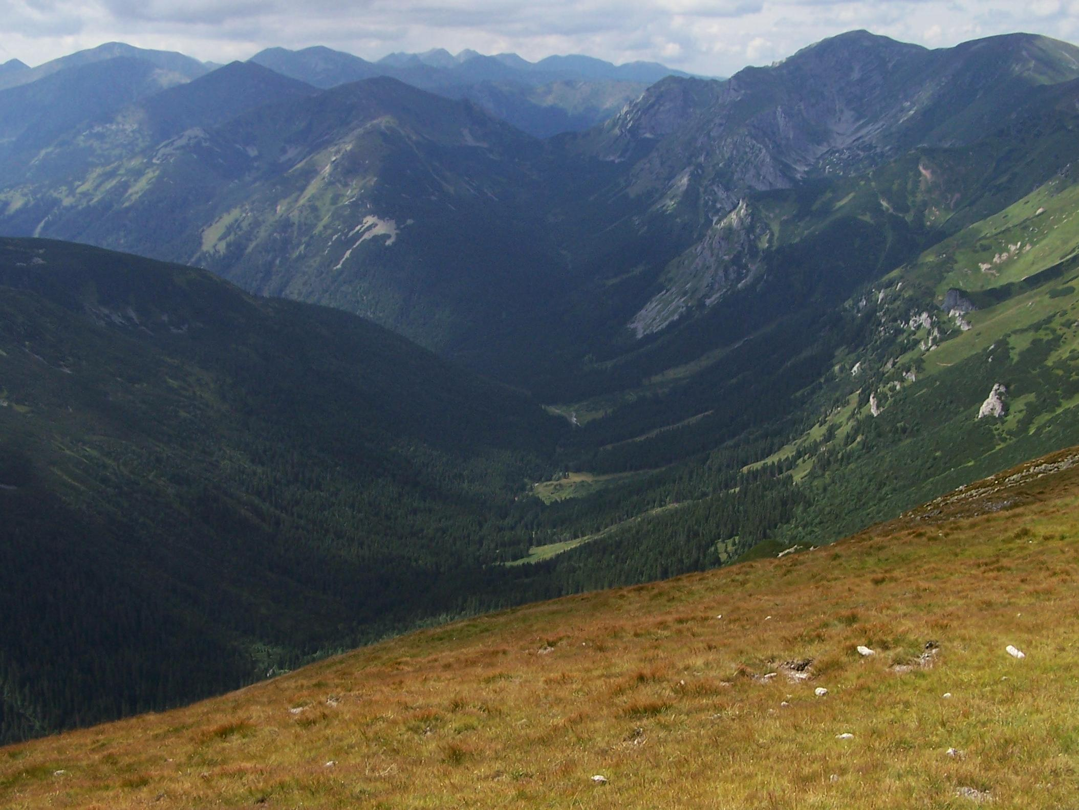 Dolina Cicha Liptowska (West Tatra Mountains)